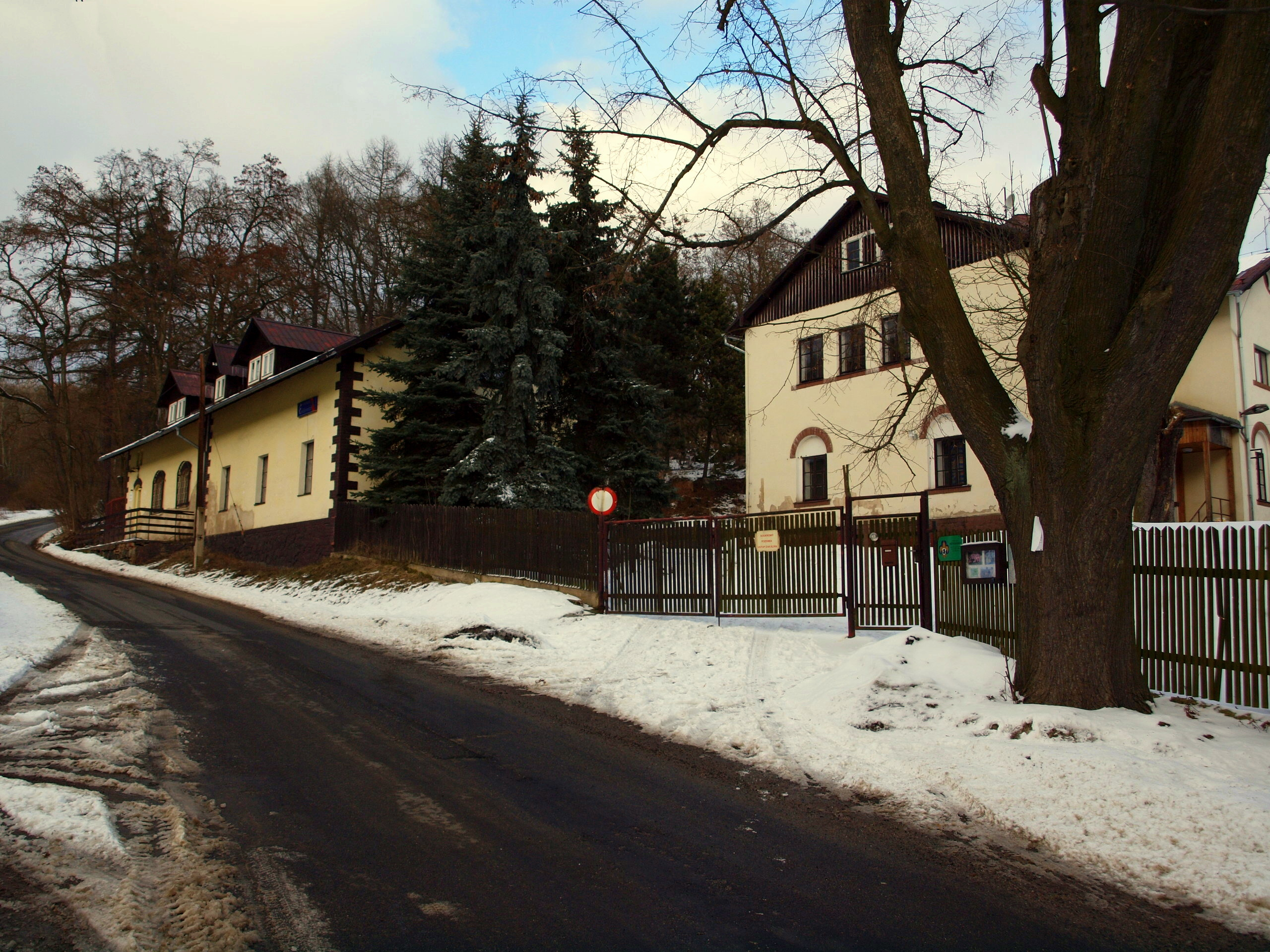 Mentaurov